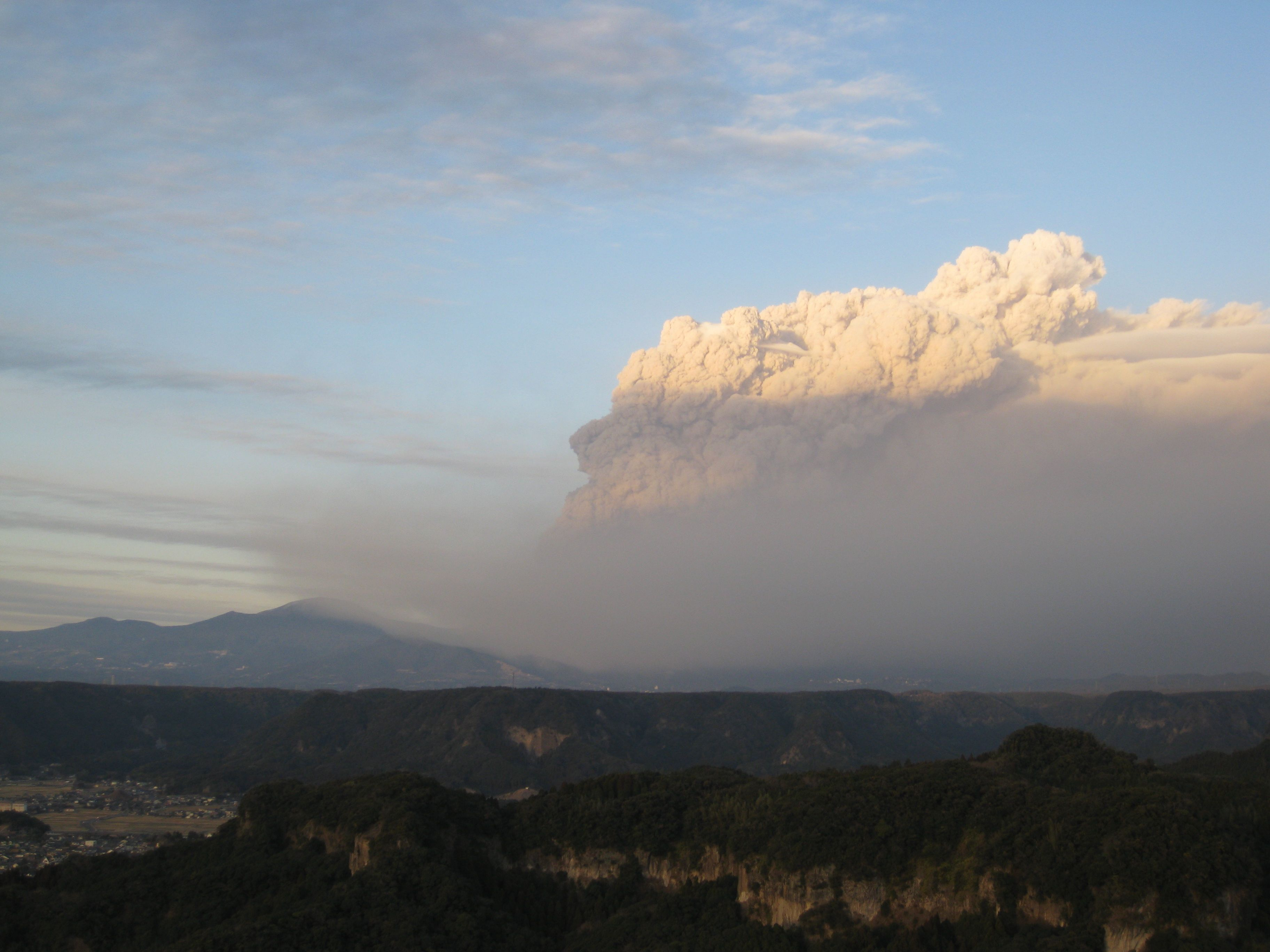 Kirishima in Smoke of Mount Shinmoe Eruption